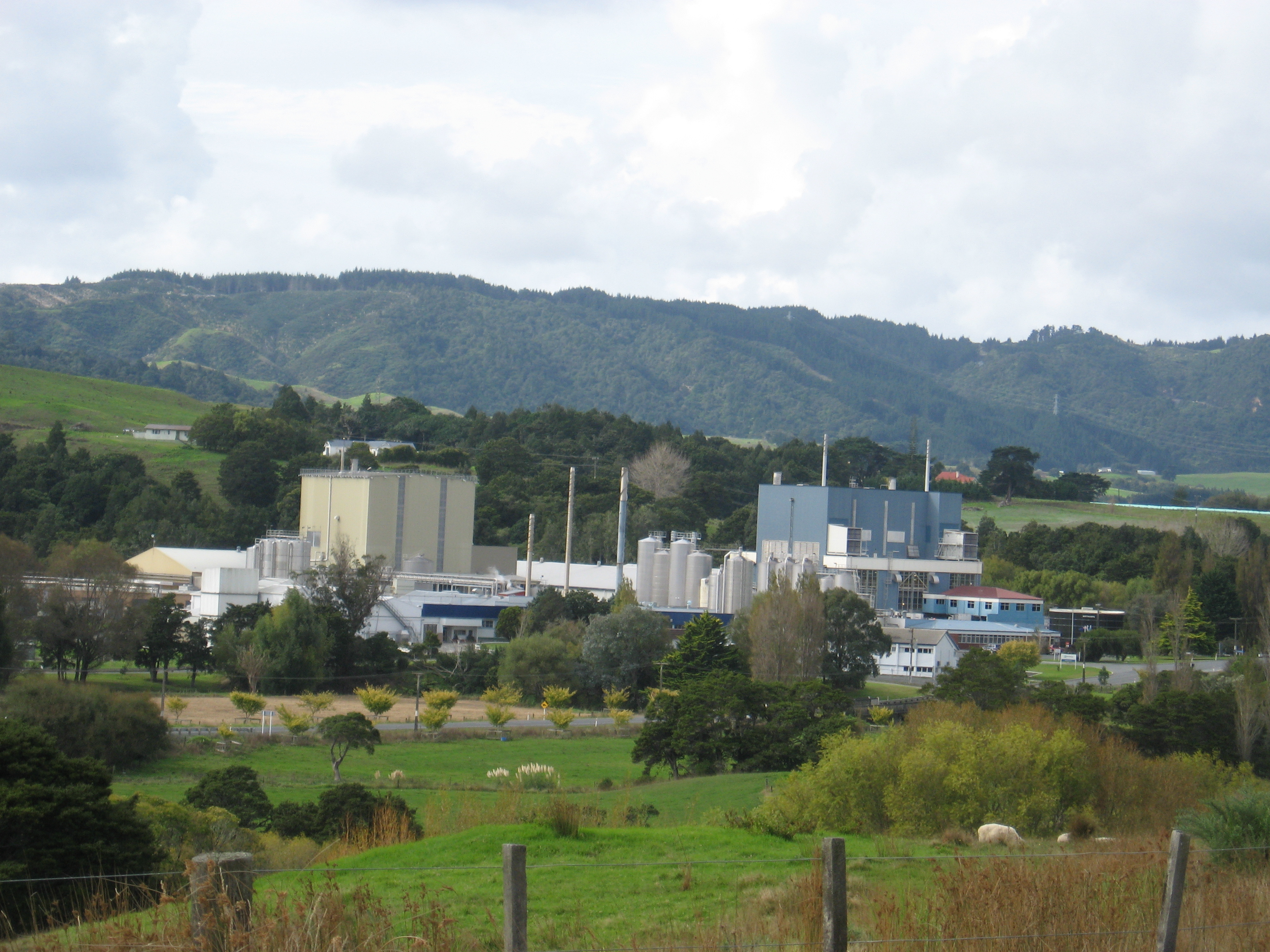 Maungaturoto